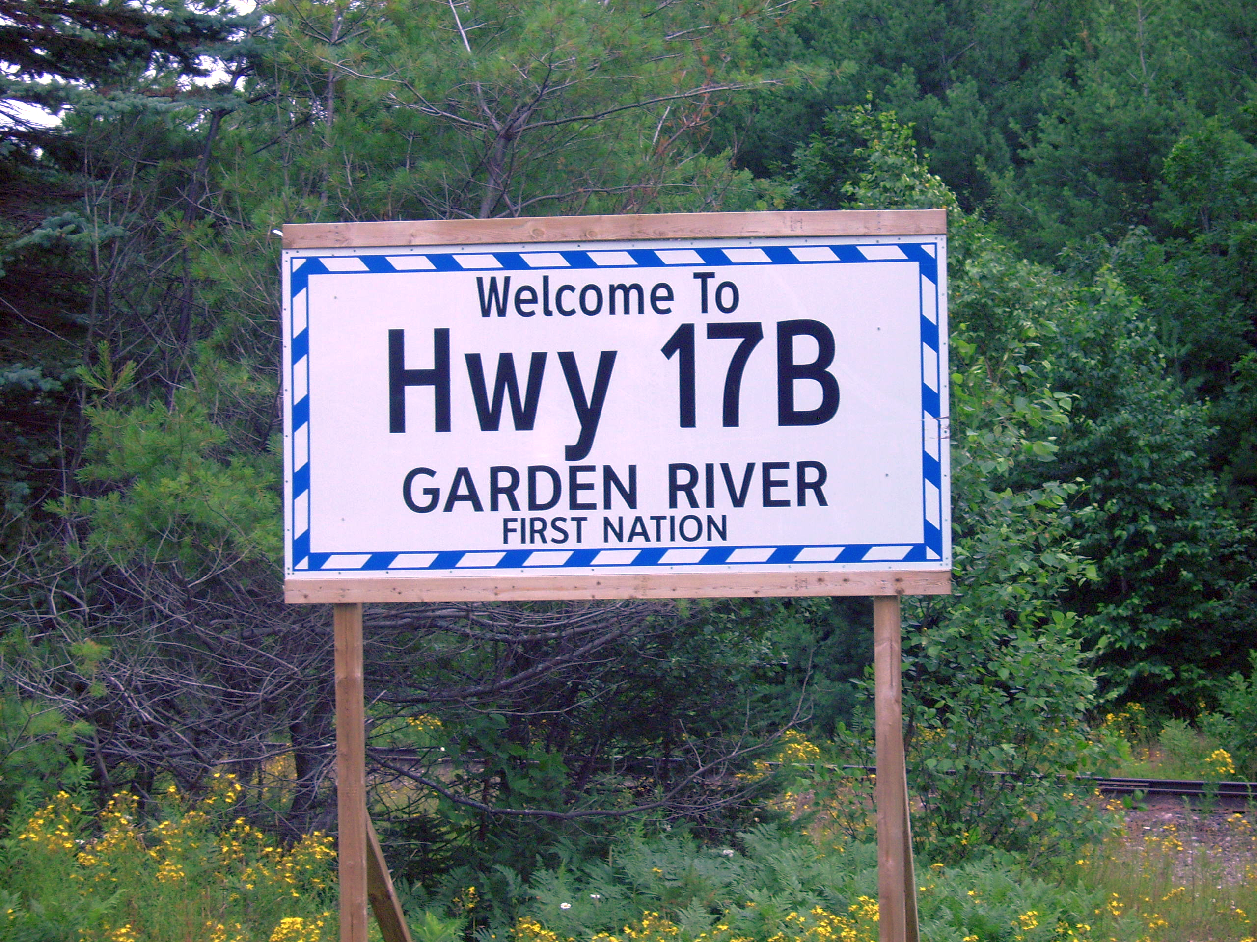 When the Highway 17 expressway bypassed Garden River in 2008, Ontario renumbered the old route as Highway 638. The Garden Rivers first nations insisted that the province change it to 17B in order to maintain traffic along the route. When the province refused, the first nations placed their own signs along the highway and removed the provincial signs. The province eventually conceded and officially redesignated the road as Highway 17B in 2009.